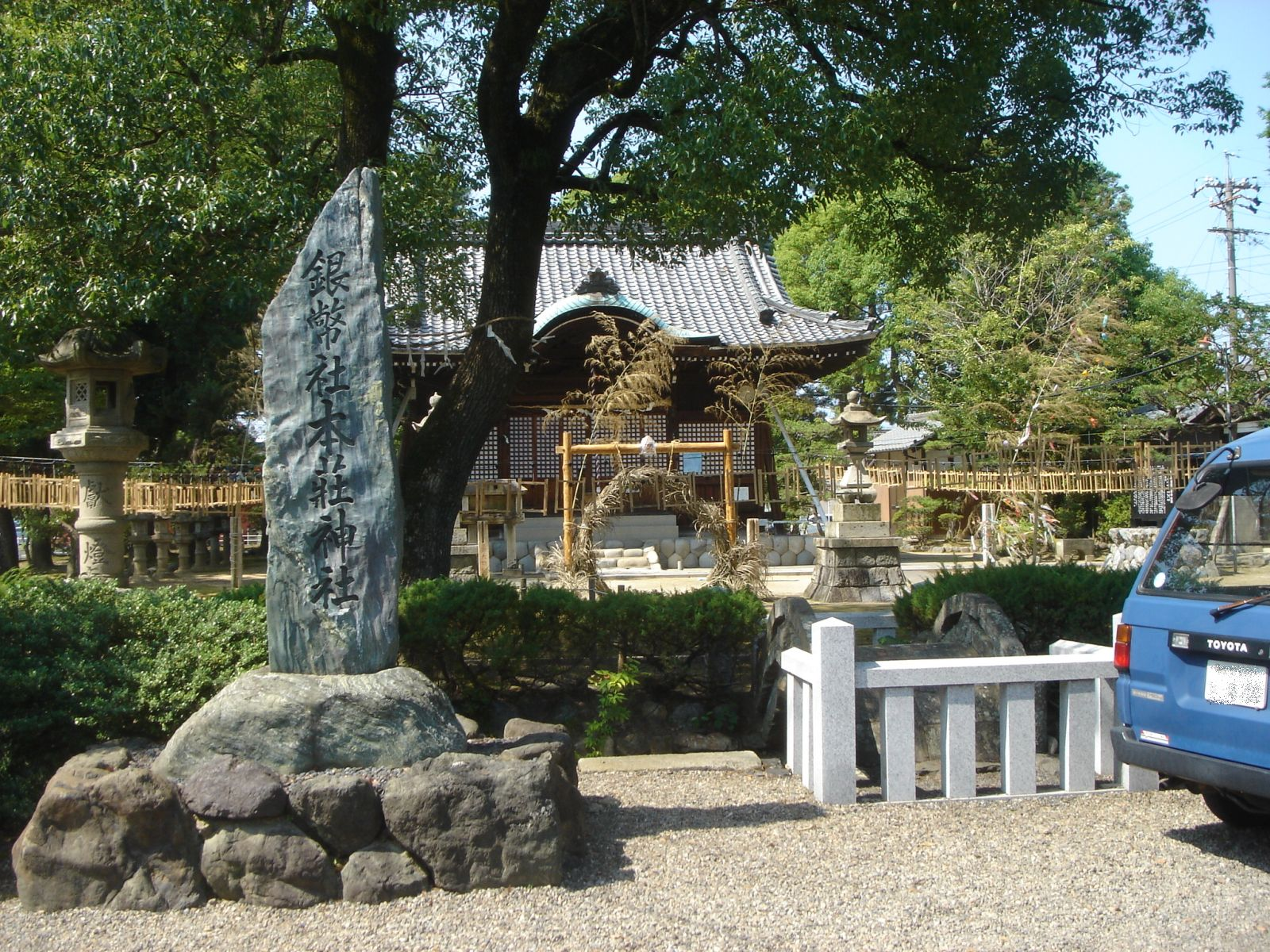 Honjo Jinja(Shrine)in Gifu City